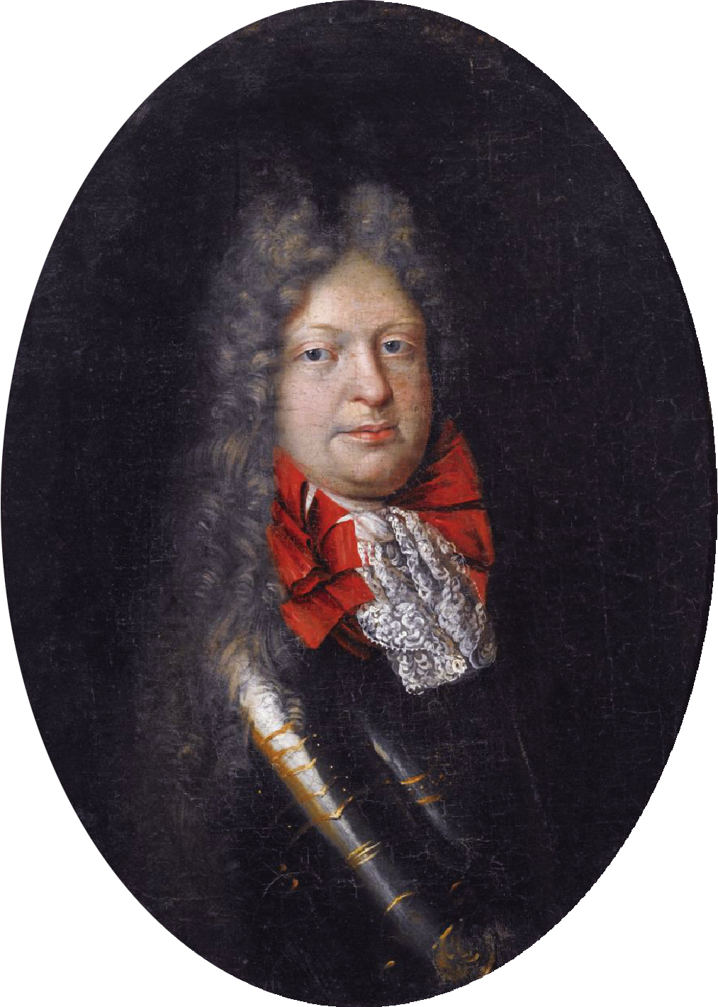 Ernst Ferdinand of Brunswick (1682 - 1746) oil on canvas